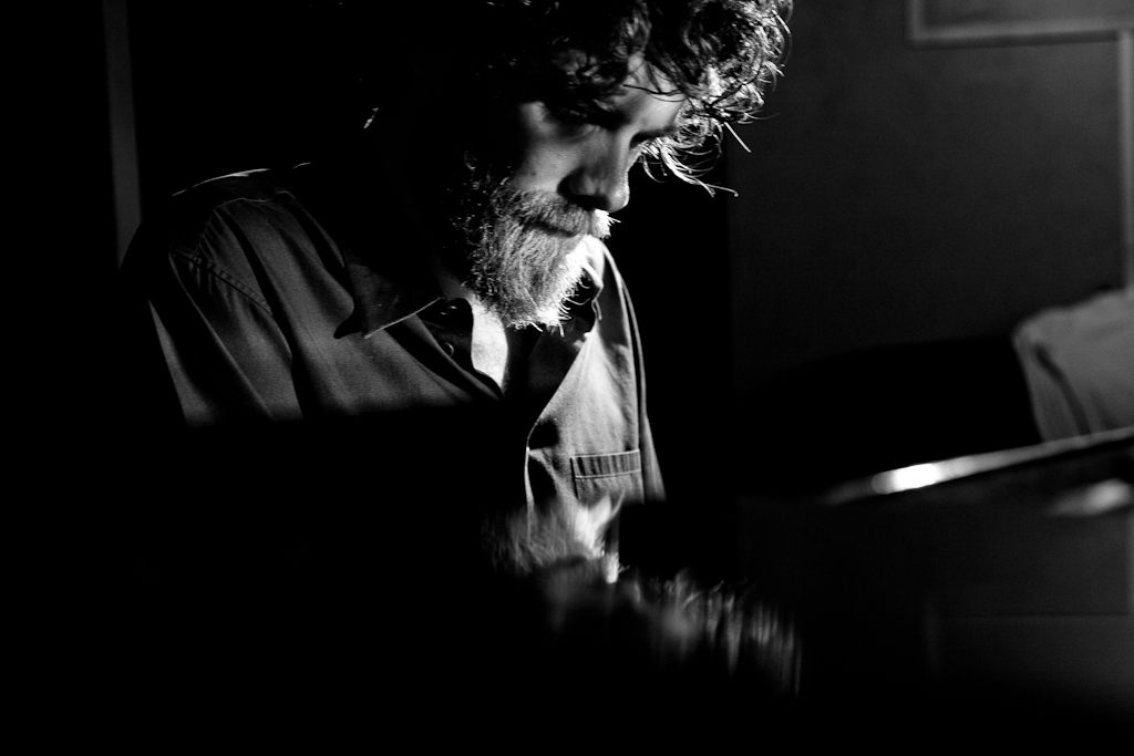 Simone Giuliani recording at Soundtrack Studios, Manhattan, New York (July, 2010) © Marlon Krieger Photography